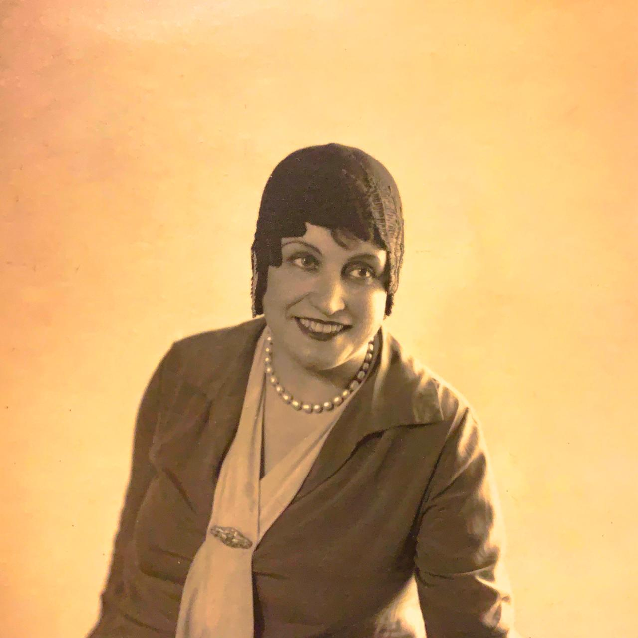 Malena Sandor at the end of the 1930s.